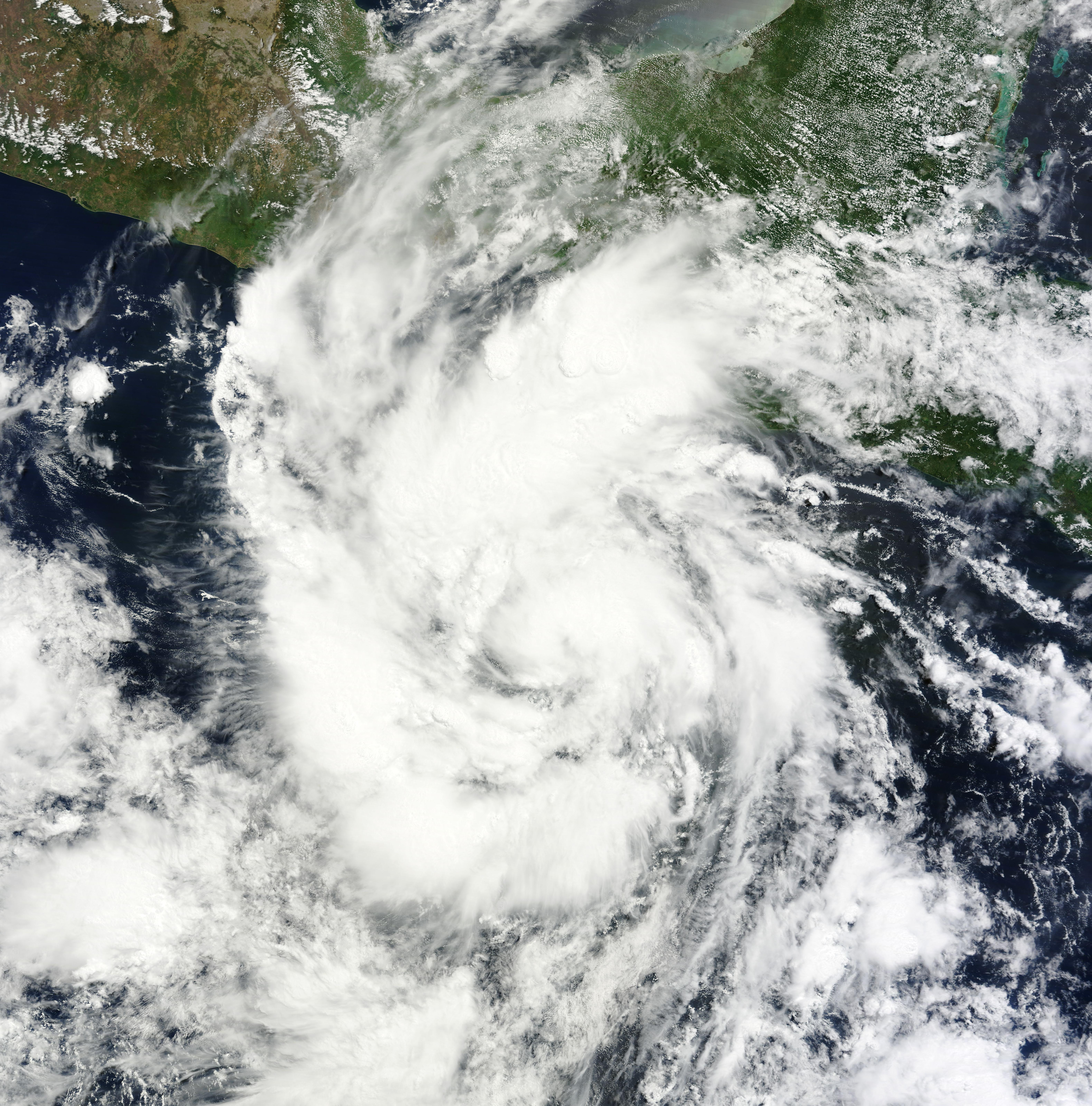 This picture shows Tropical Storm Carlotta on June 14, 2012 from the Terra satellite At the time, Carlotta was heading to the northwest with winds of 50 mph (80 km/h).